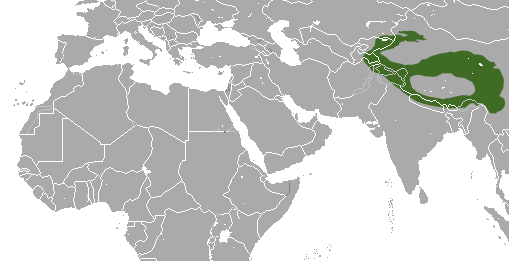 Large-eared Pika (Ochotona macrotis) range